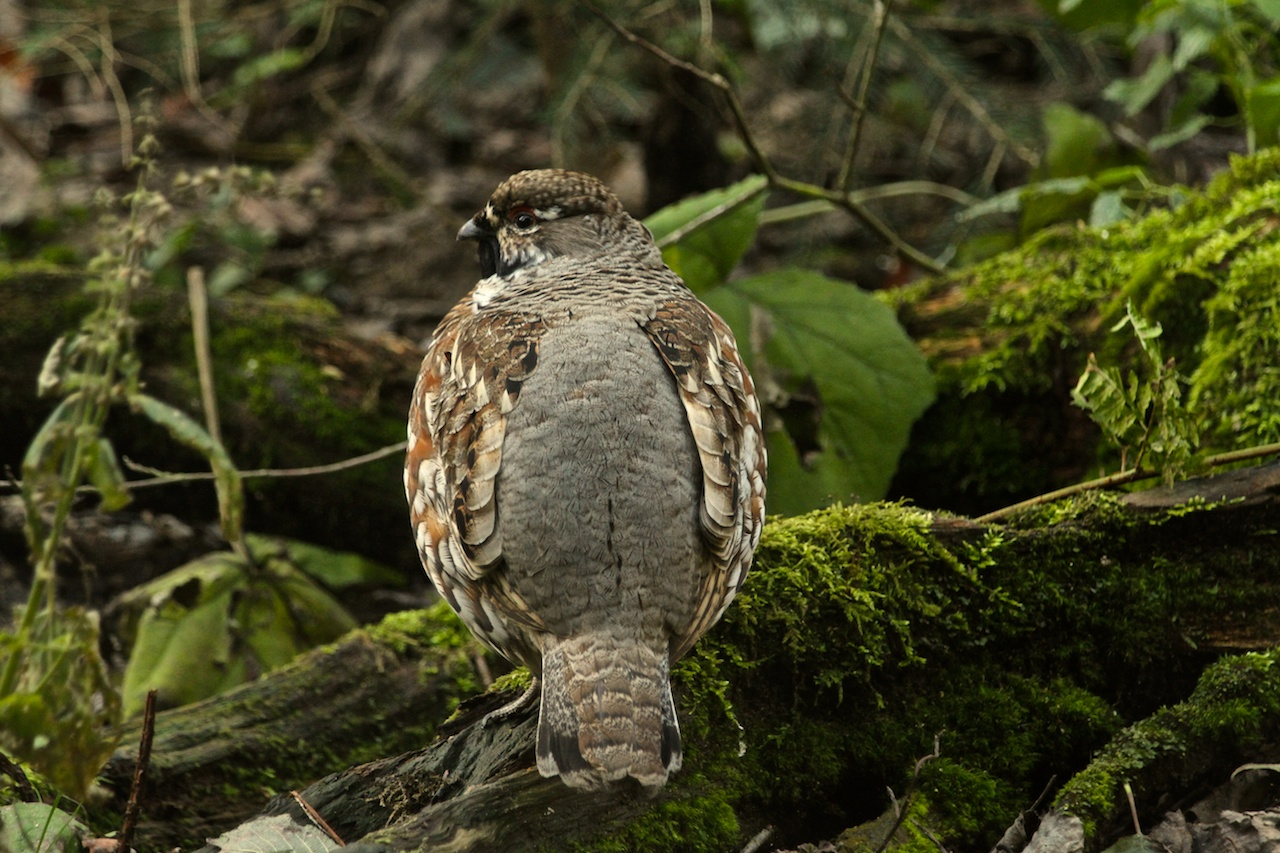 A Hazel Grouse in Bayerischer Wald (Bavarian Forest), Europe.